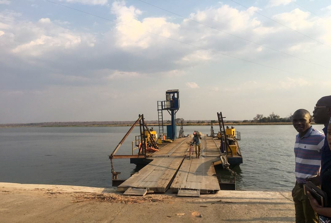 Ferry used to transport both vehicles and people from zambian border to botswana, and vice versa. This is an image with the theme "Africa on the Move or Transport" from: Zambia